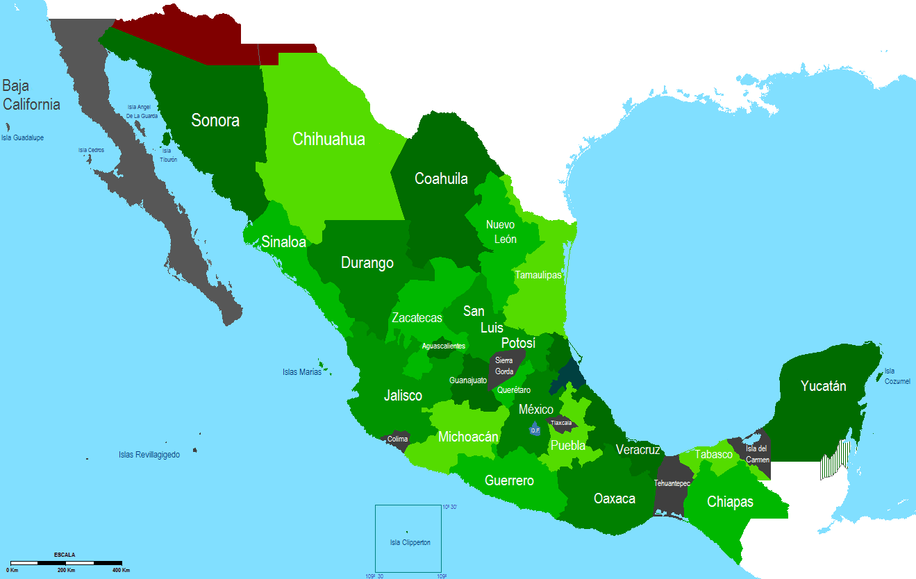 Map of Mexico between 1853 and 1856 during the Bases for the Administration of the Republic.